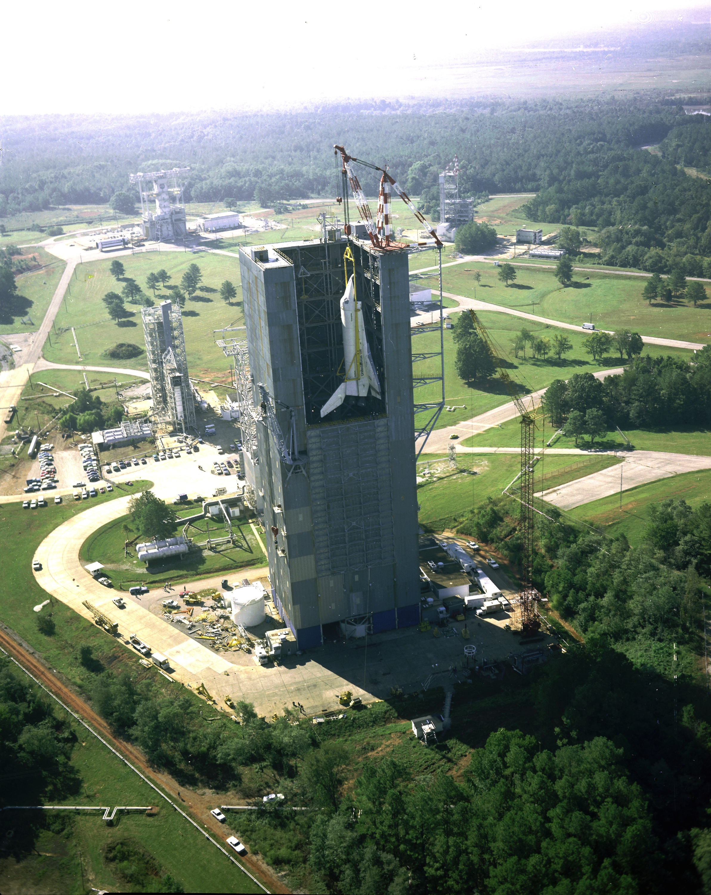 This aerial view of the Shuttle Enterprise from 1978 shows the shuttle orbiter being hoisted into Marshall's Dynamic Test Stand for the Mated Vertical Ground Vibration test. The test marked the first time that the entire Space Shuttle--an orbiter, an external tank and two solid rocket boosters--were mated together. The purpose of the vibration tests was to verify whether the shuttle performed its launch configuration as predicted.